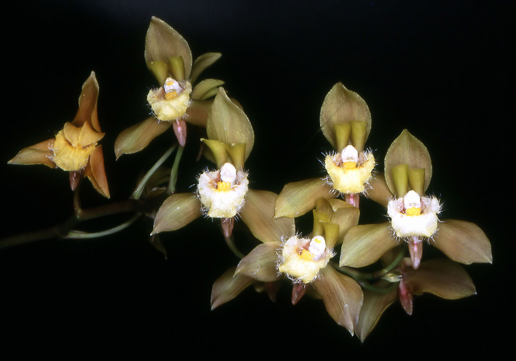 Bifrenaria charlesworthii